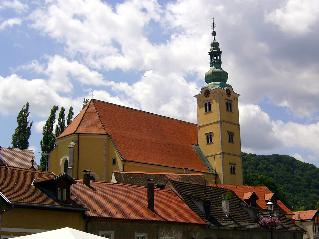 Church of Saint Anastazia.